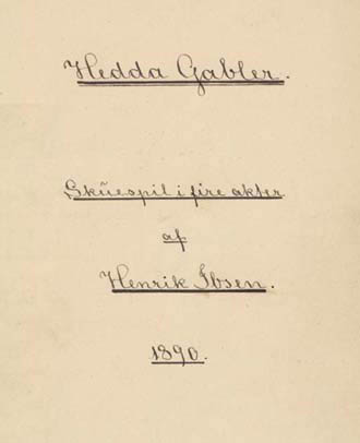 The image of the title page of the Henrik Ibsen play, Hedda Gabler (1890) Translation: Hedda Gabler. A play in four acts by Henrik Ibsen. 1890.